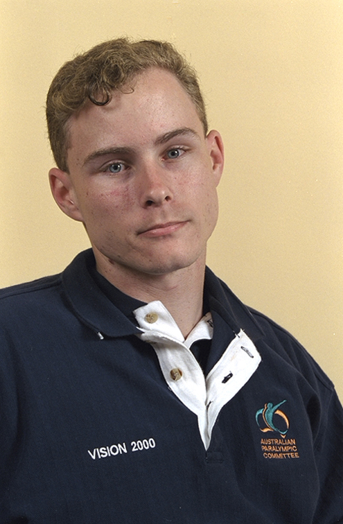 Portrait of Australian athletics competitor Geoff Trappett, 2000 Australian Paralympic Team athlete